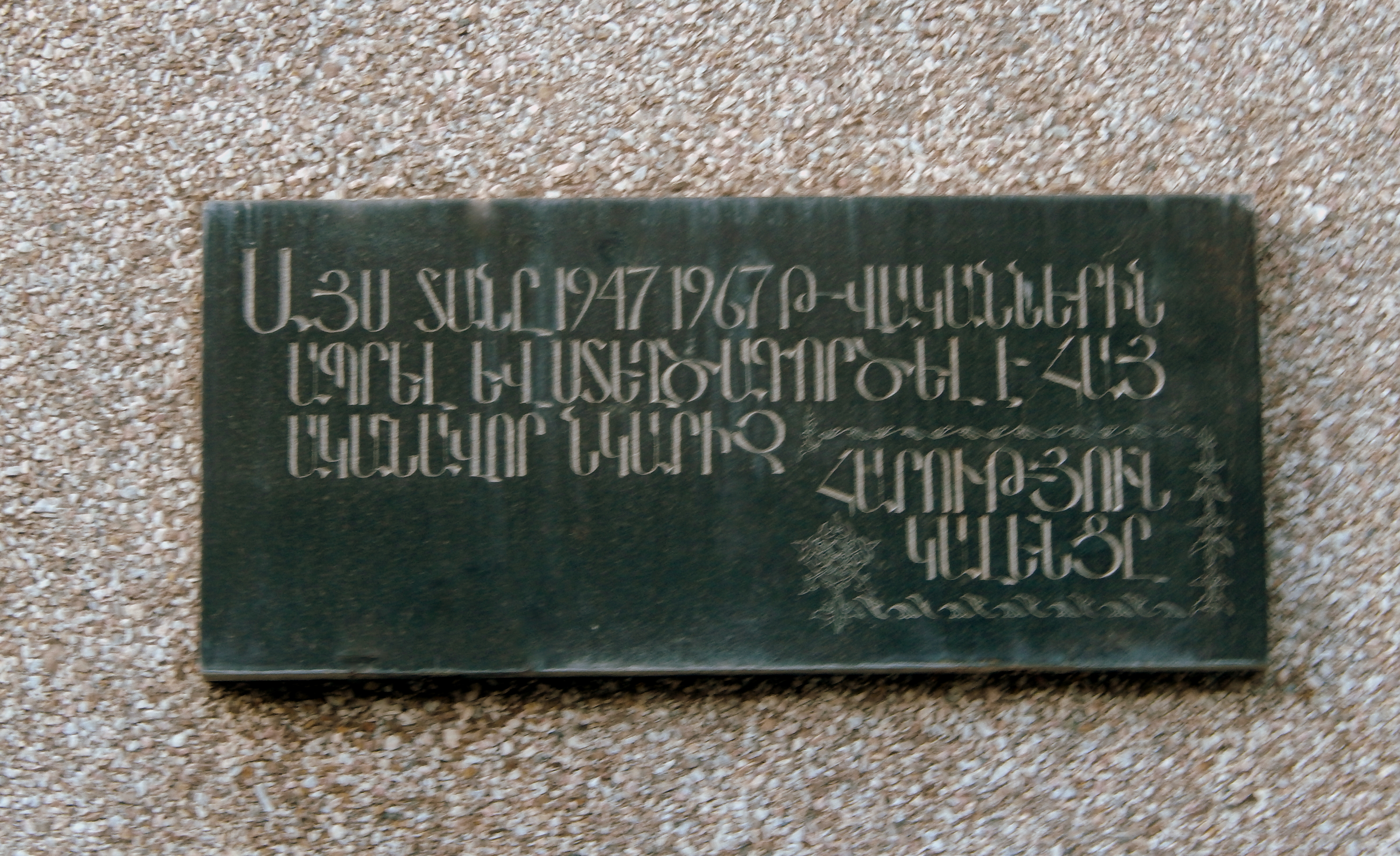 Կալենց թանգարան